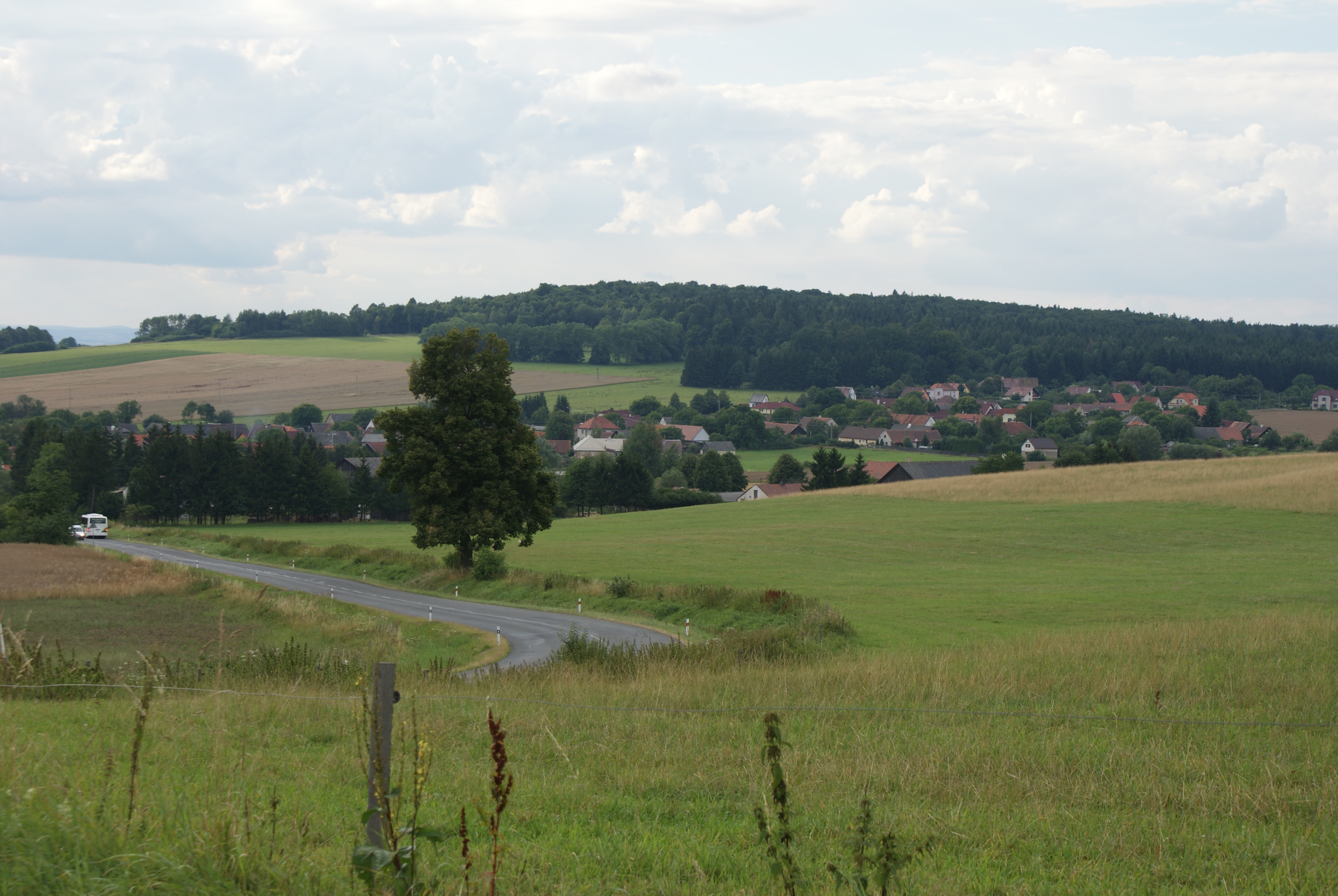 Skašov, a village in Plzeň-South District, Czech Rep., general view.